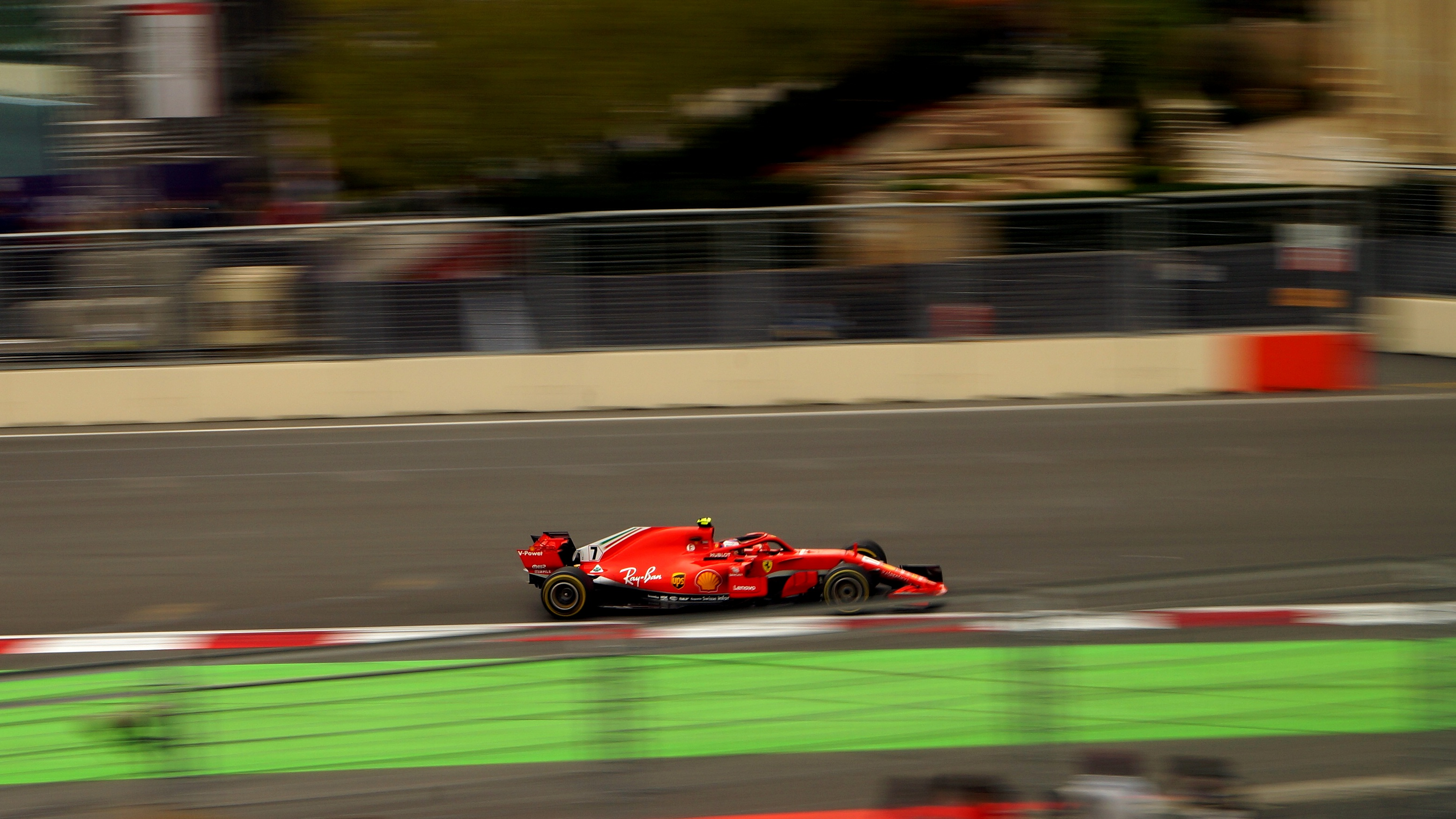 Kimi Raikkonen during 2018 Azerbaijan GP